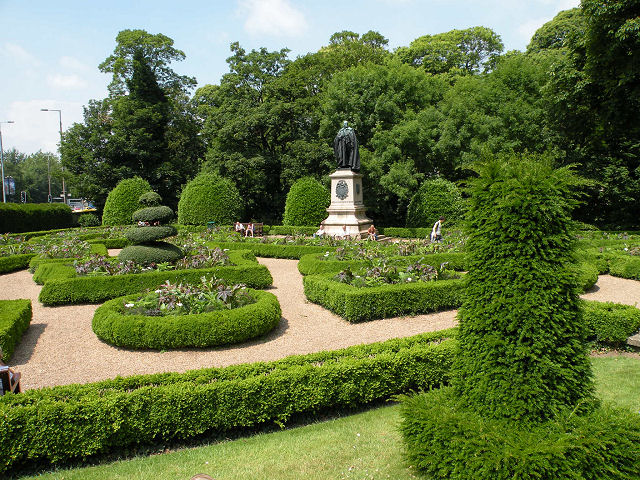 Friary Gardens, Cathays Park, Cardiff, Wales